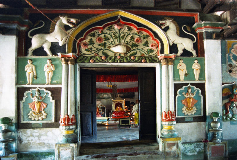 Sanctorium of the Dakhinpath Satra,Majuli Island,Assam India